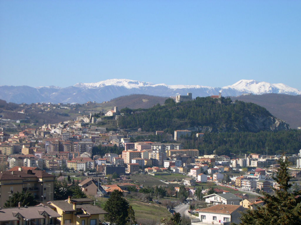 Campobasso View of City